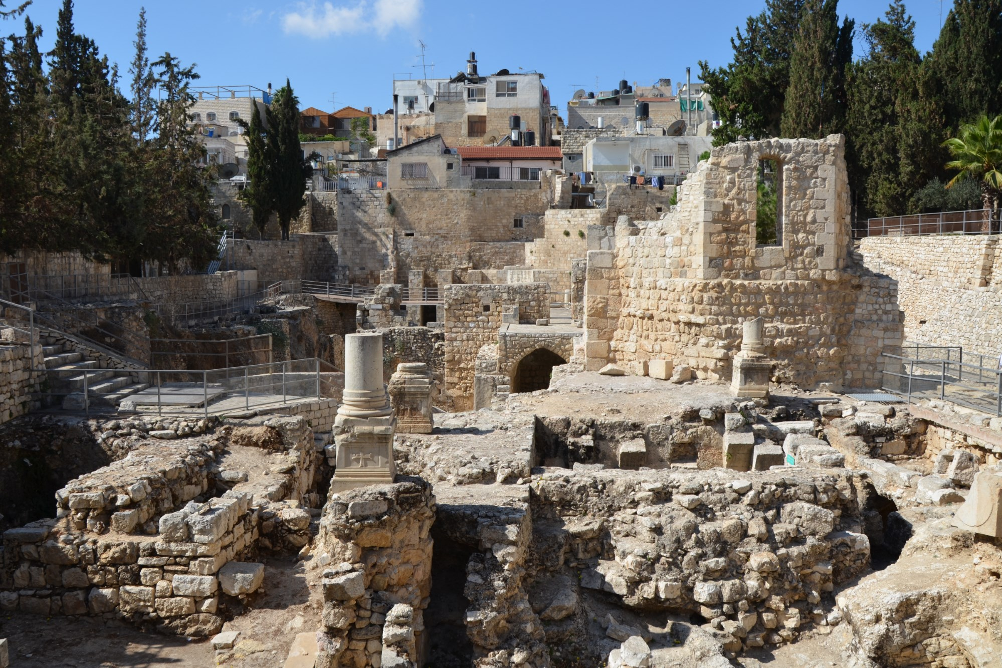 Excavations at the Pool of Bethesda showing the ruins of the Temple of Serapis with a column from an early Christian church, Aelia Capitolina